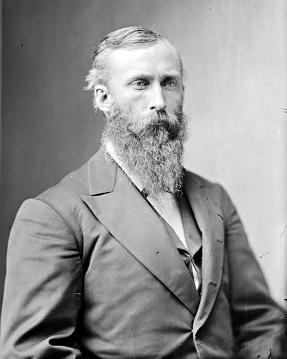 We don't know when the author died, since we don't know who the author was